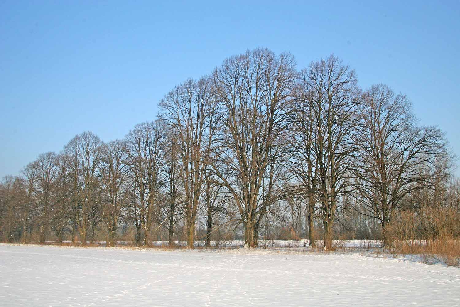 Tilia Avenue in Přelouč.